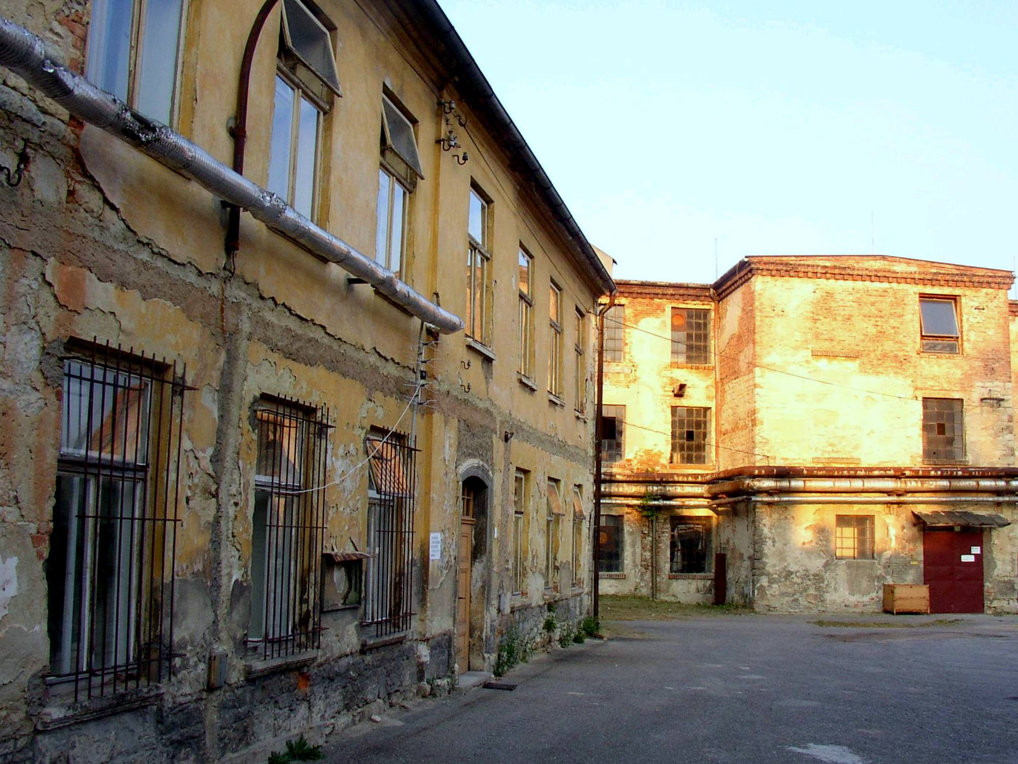 Oskar Schindler's factory at Brněnec (15 km south of Svitavy), Czech Republic as seen in summer 2004